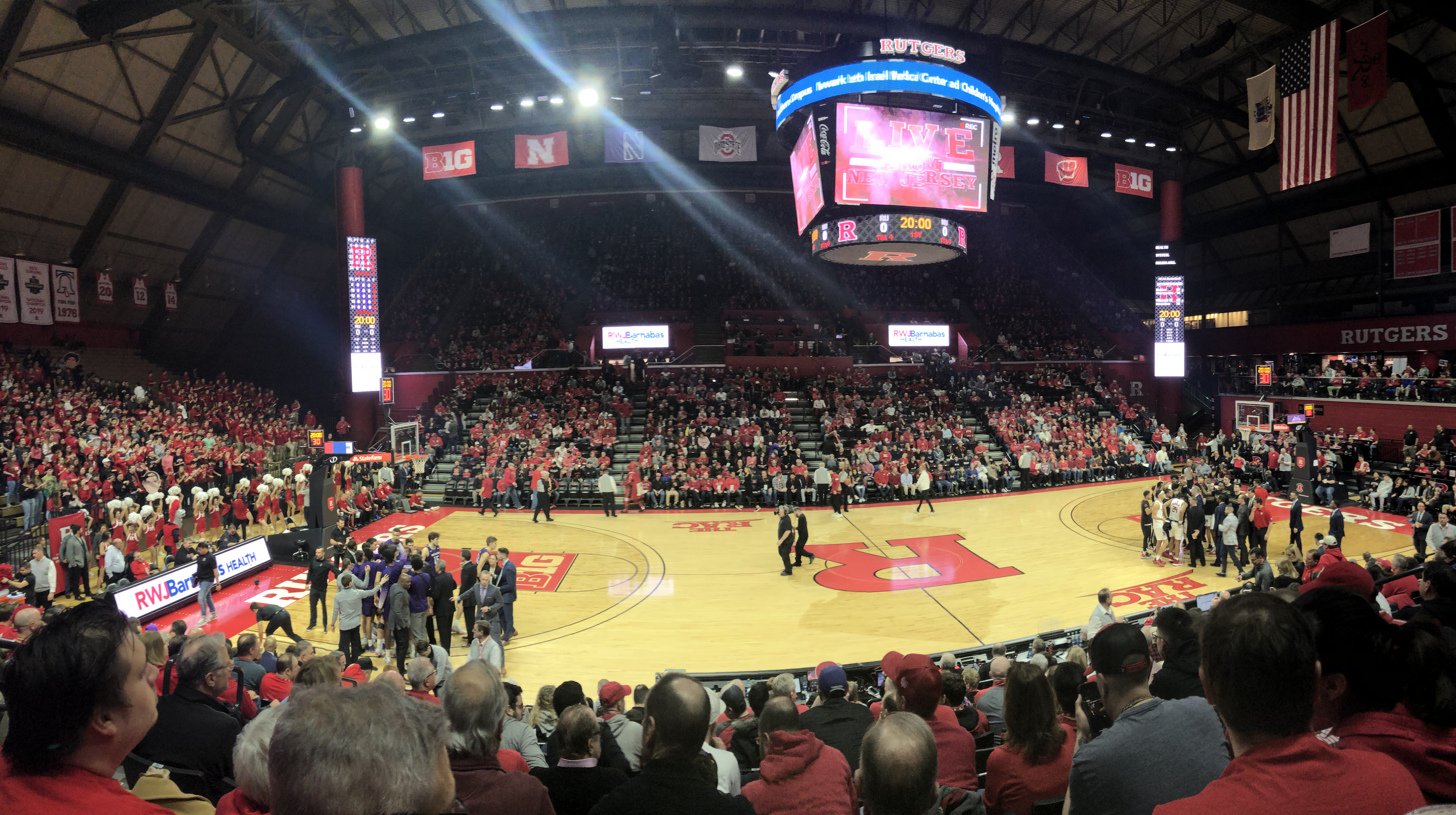 Rutgers hosts Northwestern in a Big 10 Men's Basketball conference game at the Rutgers Athletic Center on February 9, 2020.